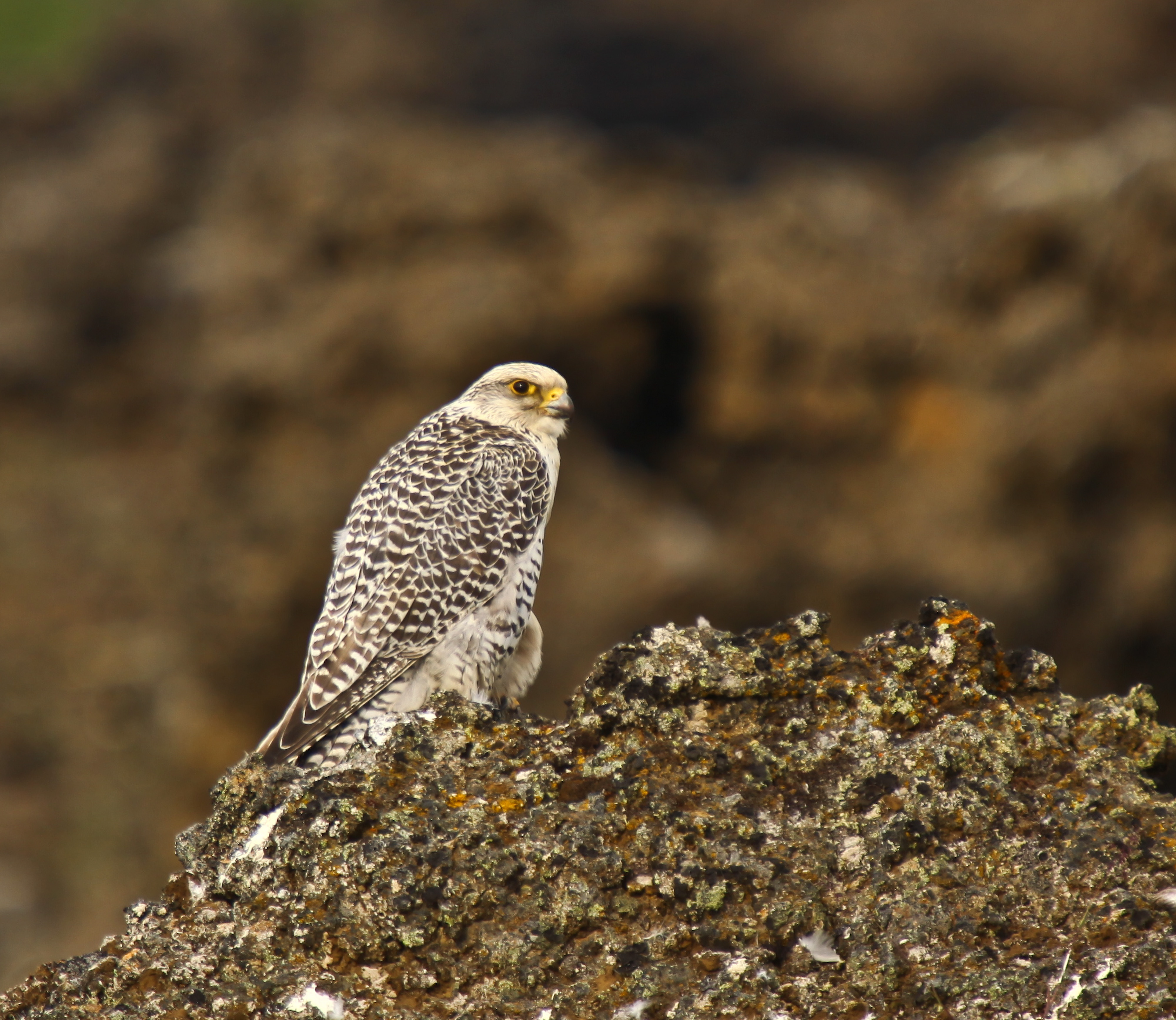 Gyr Falcon Falco rusticolus, Staðarheiti, Iceland.